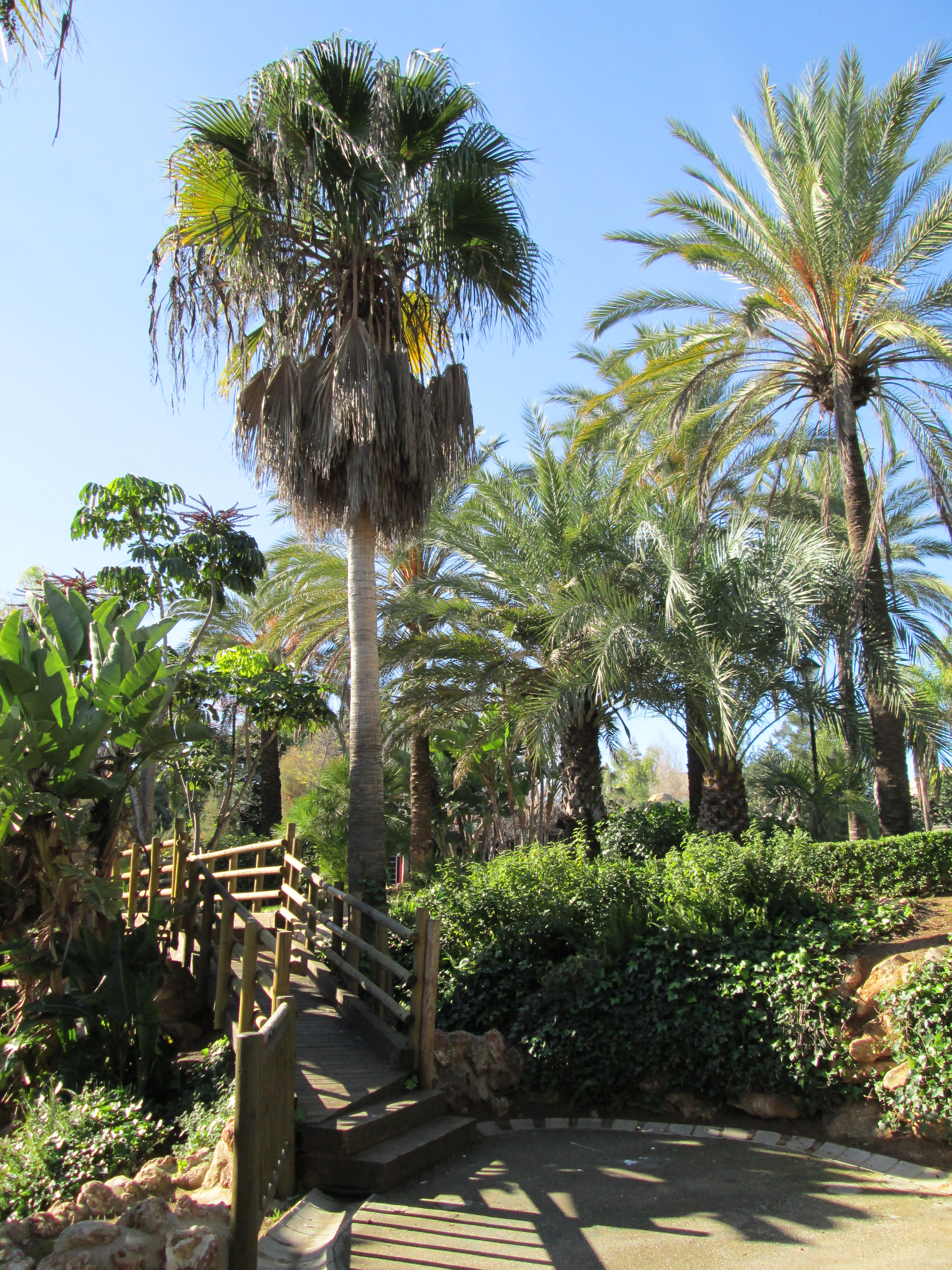 Fuengirola